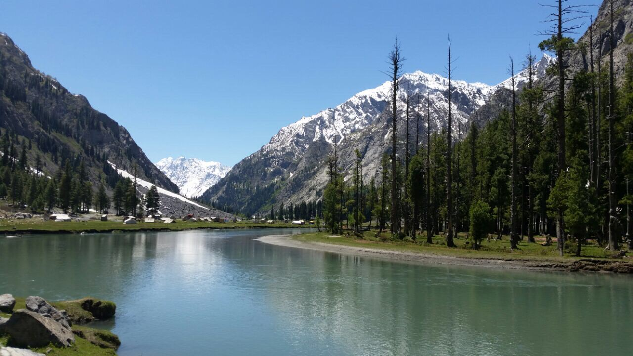 Mahodand Lake is located in Kalam Area of Swatvalley and it can be access via Jeed or four wheel vehicle. Very cool and sound area from the northern pakistan.if some need to stay there for a night or more so he should camp there because hotel nearby the lake. The area is lush green with very cold water.